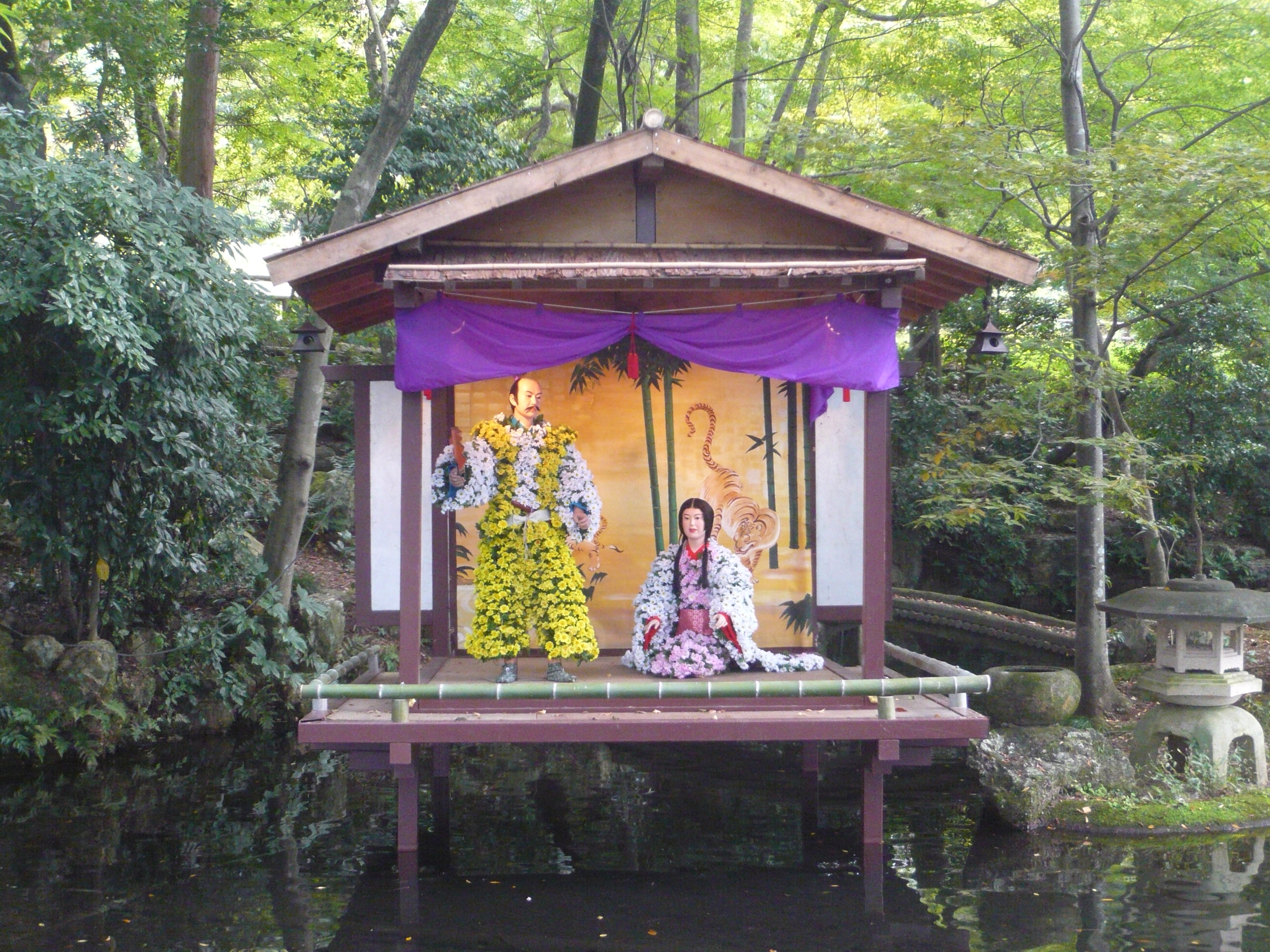 Chrysanthemum Doll and Flower Festival 菊人形・菊花展（岐阜公園）,Gifu,Gifu,Japan（岐阜県岐阜市）で撮影。